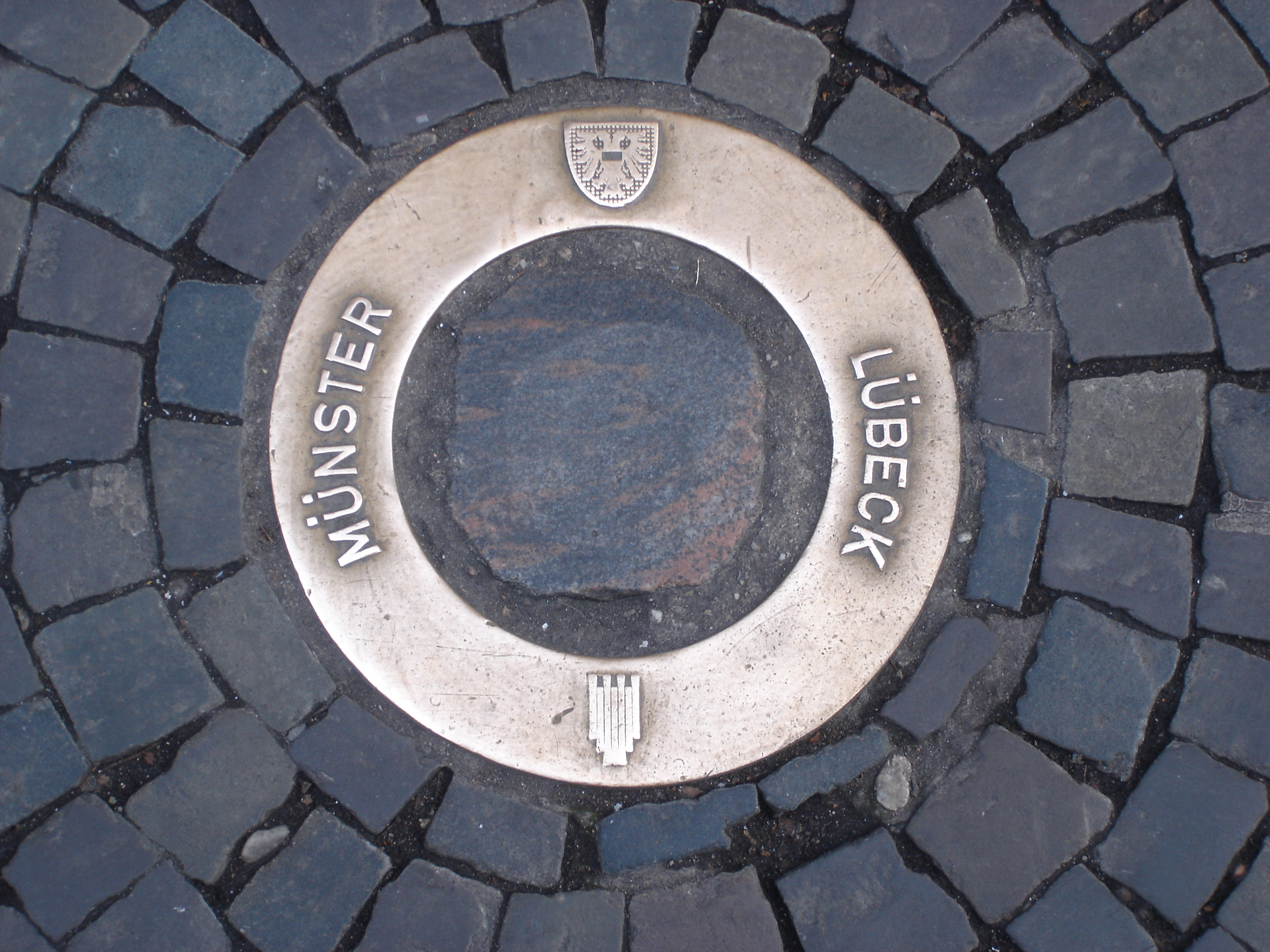 One of the Hanse-stones installed in the Salzstrasse of Münster (Westphalia), Germany, in the year 1993 due to the founding of the city 1200 years ago.